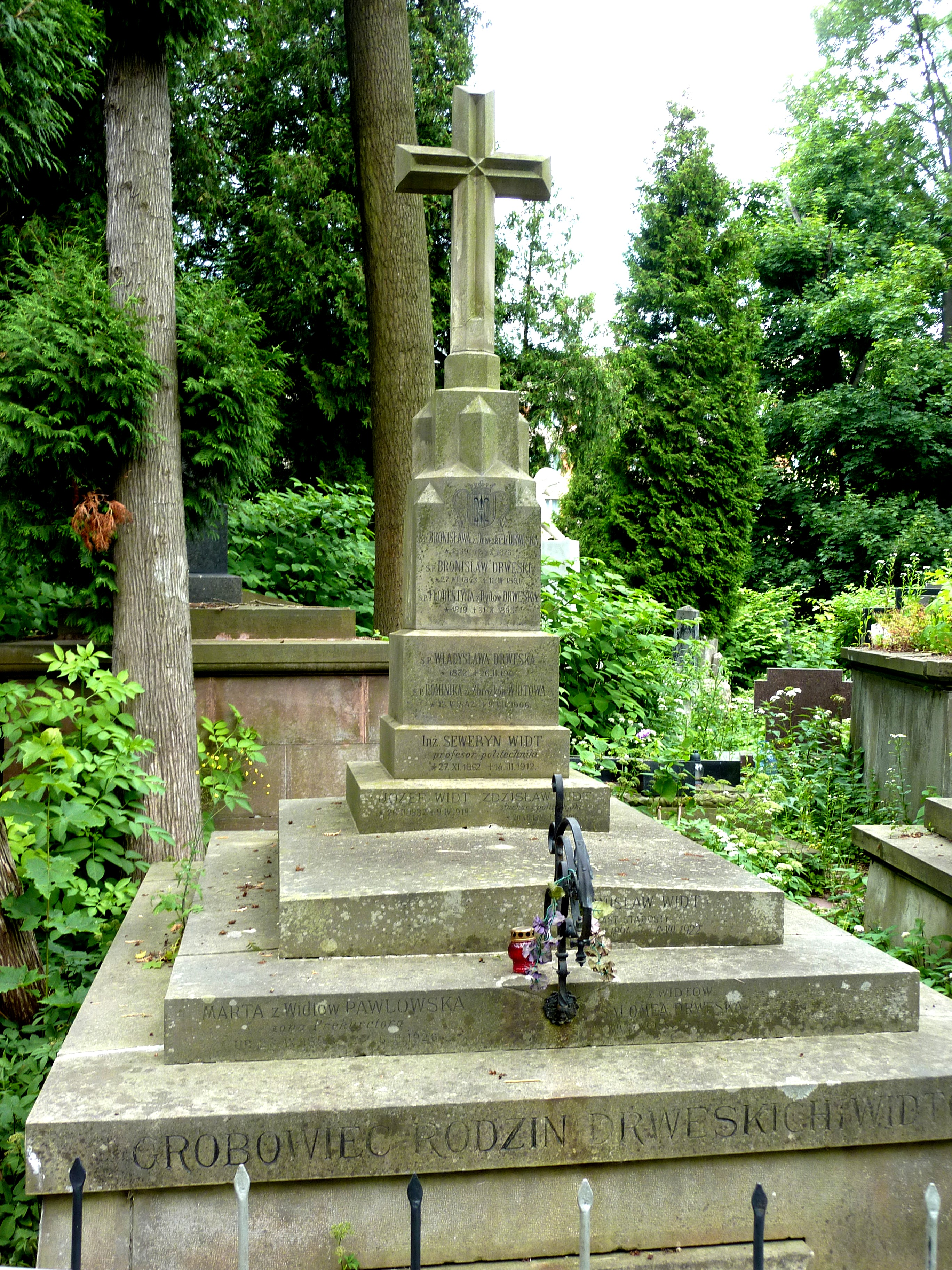 Lviv Polytechnic Professor Eng. Seweryn Widt Tomb at Lychakovsky the cemetery in Lviv